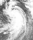 Satellite image of TS Ruby (1985)